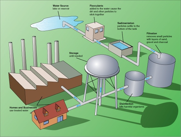 Illustration of a typical drinking water treatment process.